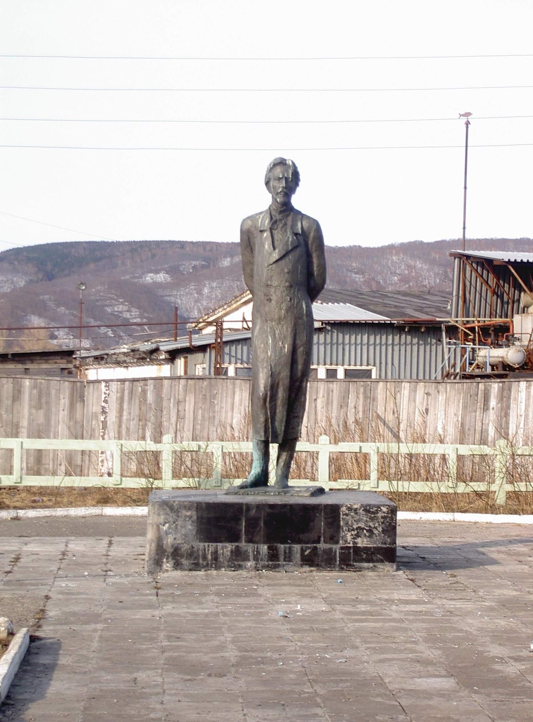 Anton Chekhov monument in Chekhova Ulitsa (street), Alexandrovsk-Sakhalinsky, Sakhalin, Russian Federation